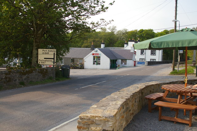 Bridgend on Islay Looking towards the Spar and road junction whilst enjoying a cold beer at the hotel